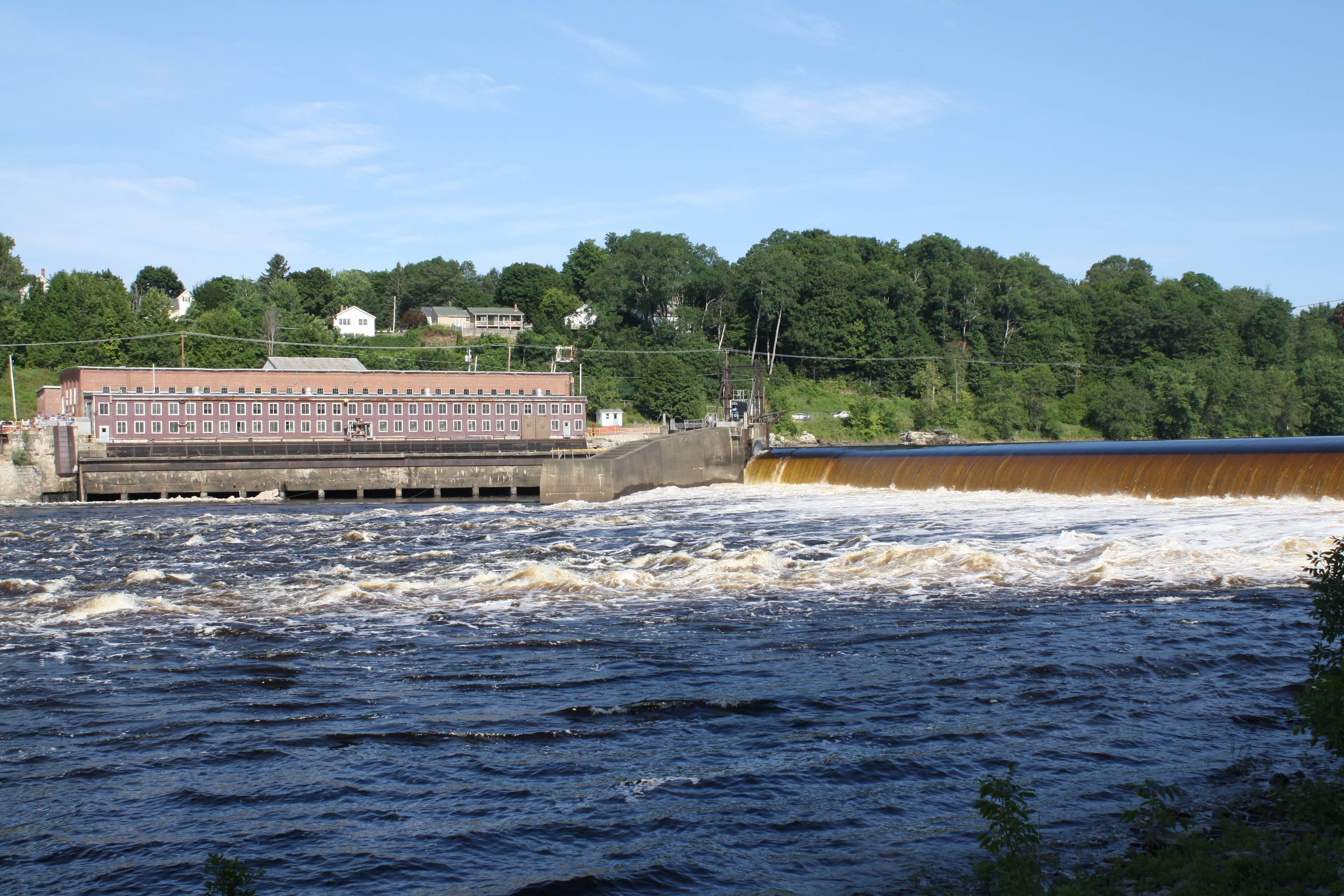 The Penobscot River Restoration Trust owns the Veazie Dam, located on the Penobscot River in Veazie and Eddington, Maine, near the head of tide. The current buttress-style dam was built in 1913, and dams have been documented at the site as early as the 1830s, blocking fish passage for nearly 200 years.